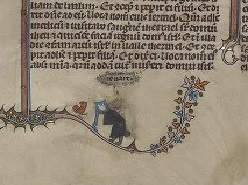 A defaced Reynard preaching to a rooster